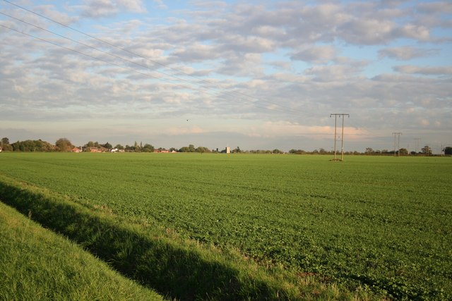 View towards Timberland View from Long Holt towards Timberland with St.Andrew's church tower on the centre horizon